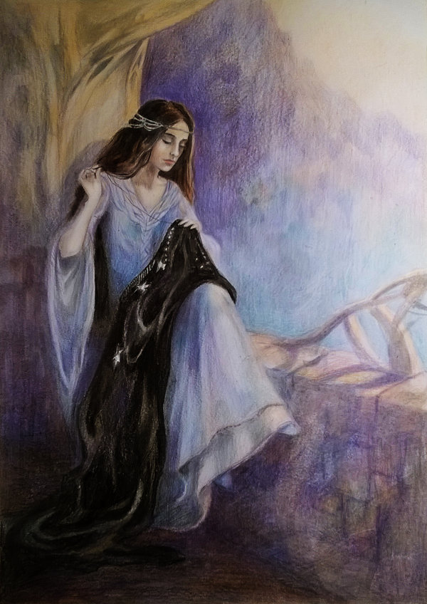 Arwen by Anna Kulisz , artwork inspired by the painting Stitching the Standard by British artist Edmund Leighton.